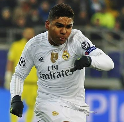 Casemiro